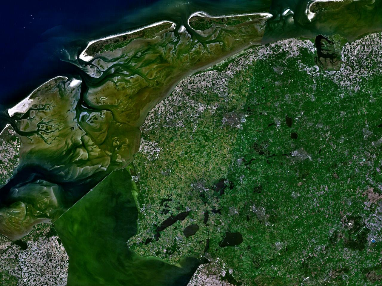 Friesland